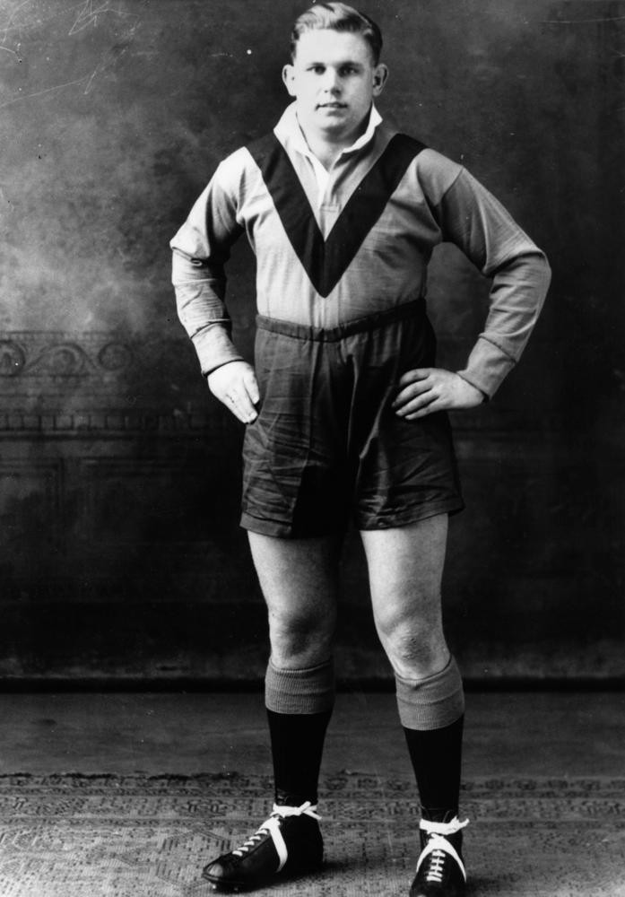 Rugby league player Harry Bath